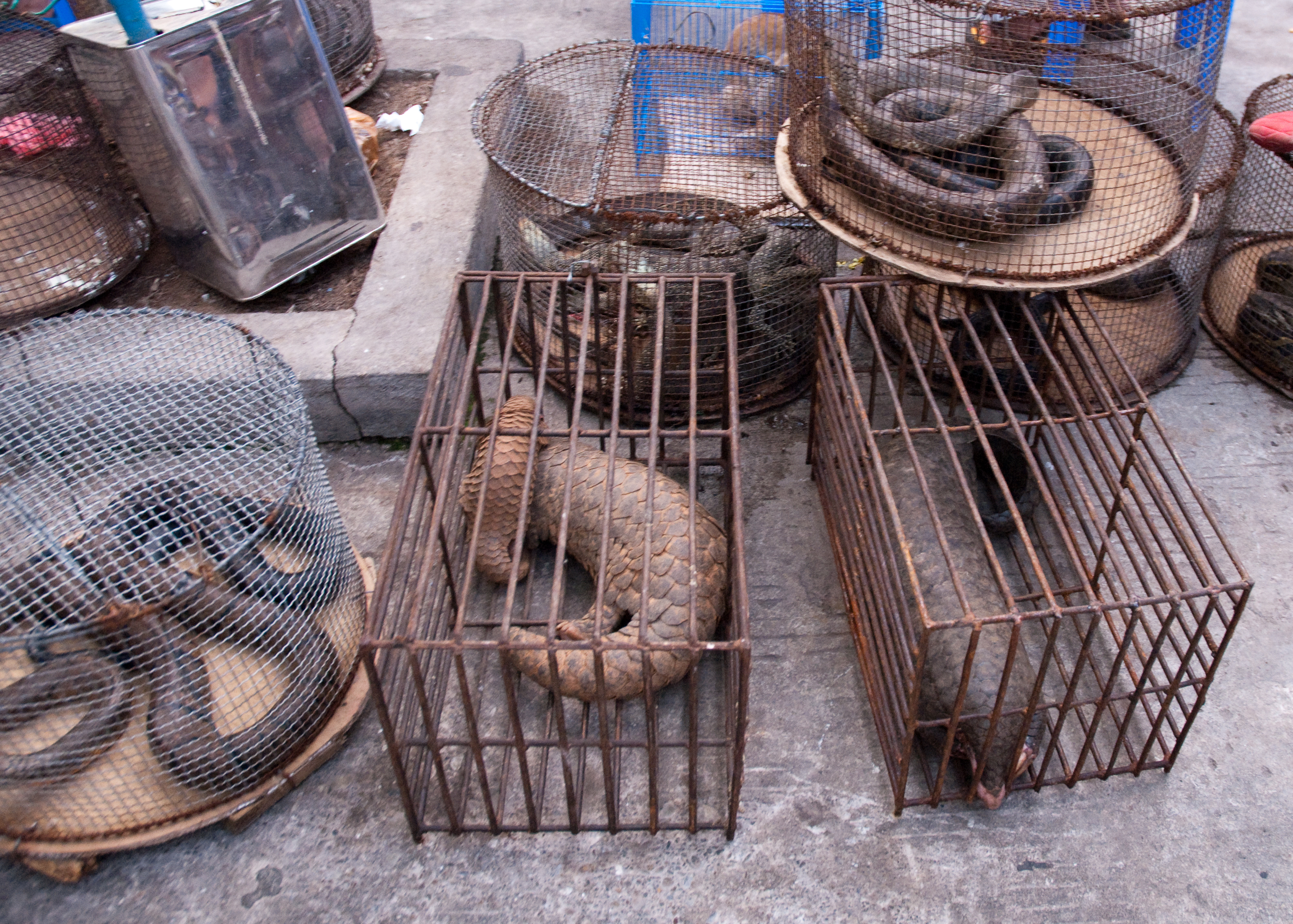 Illicit Endangered Wildlife Trade in Möng La, Shan, Myanmar